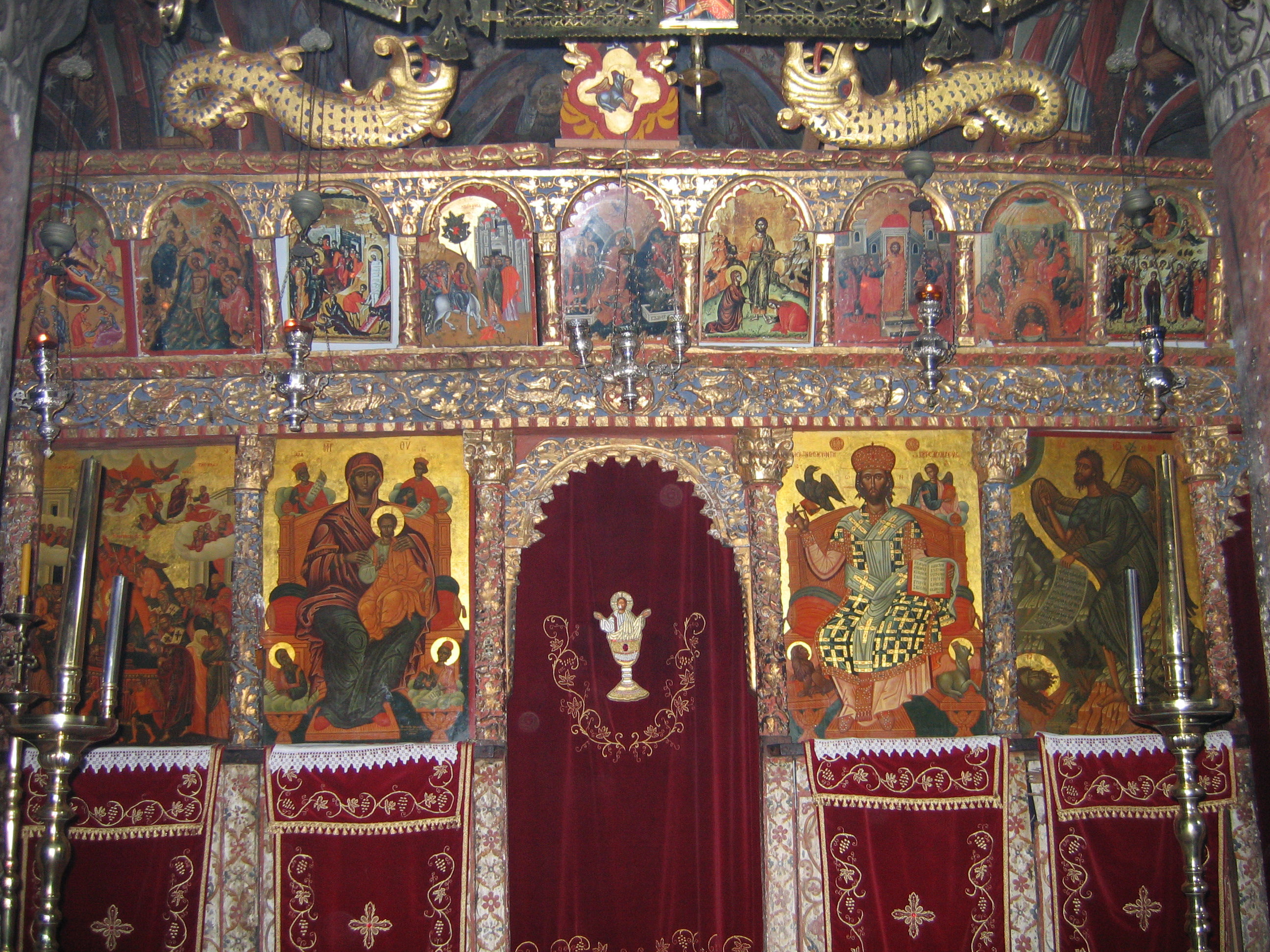 The wooden iconostasis at the church of the new Filosofou Monastery